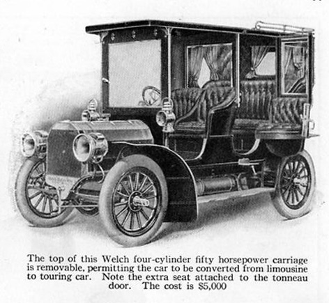 1905 Welch automobile. Manufactured in Michigan the Welch was featured in a Country Life magazine article about 1905 automobiles.